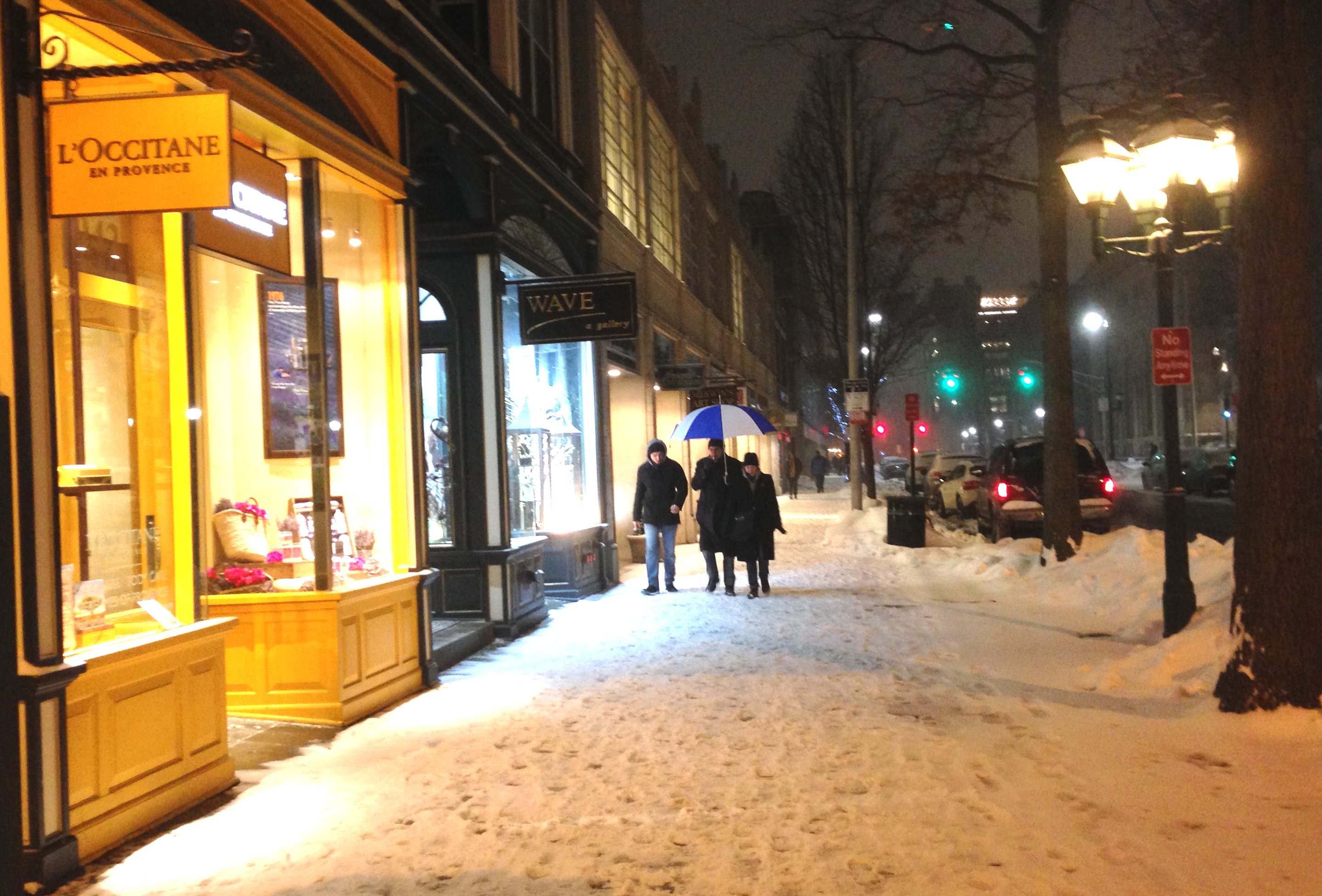 Chapel Street, a principal shopping corridor in New Haven, Connecticut